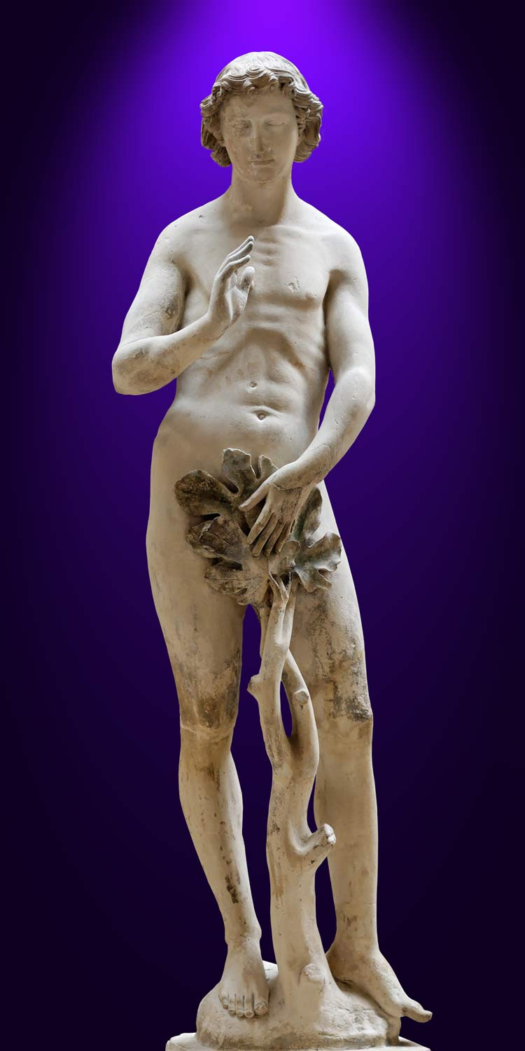 Adam. Stone, Paris, ca. 1260. From the interior decoration of the south arm of the transept of Notre-Dame of Paris. A statue of Eve stood as counterpart, both statues surrounded a Christ of the Last Judgment.